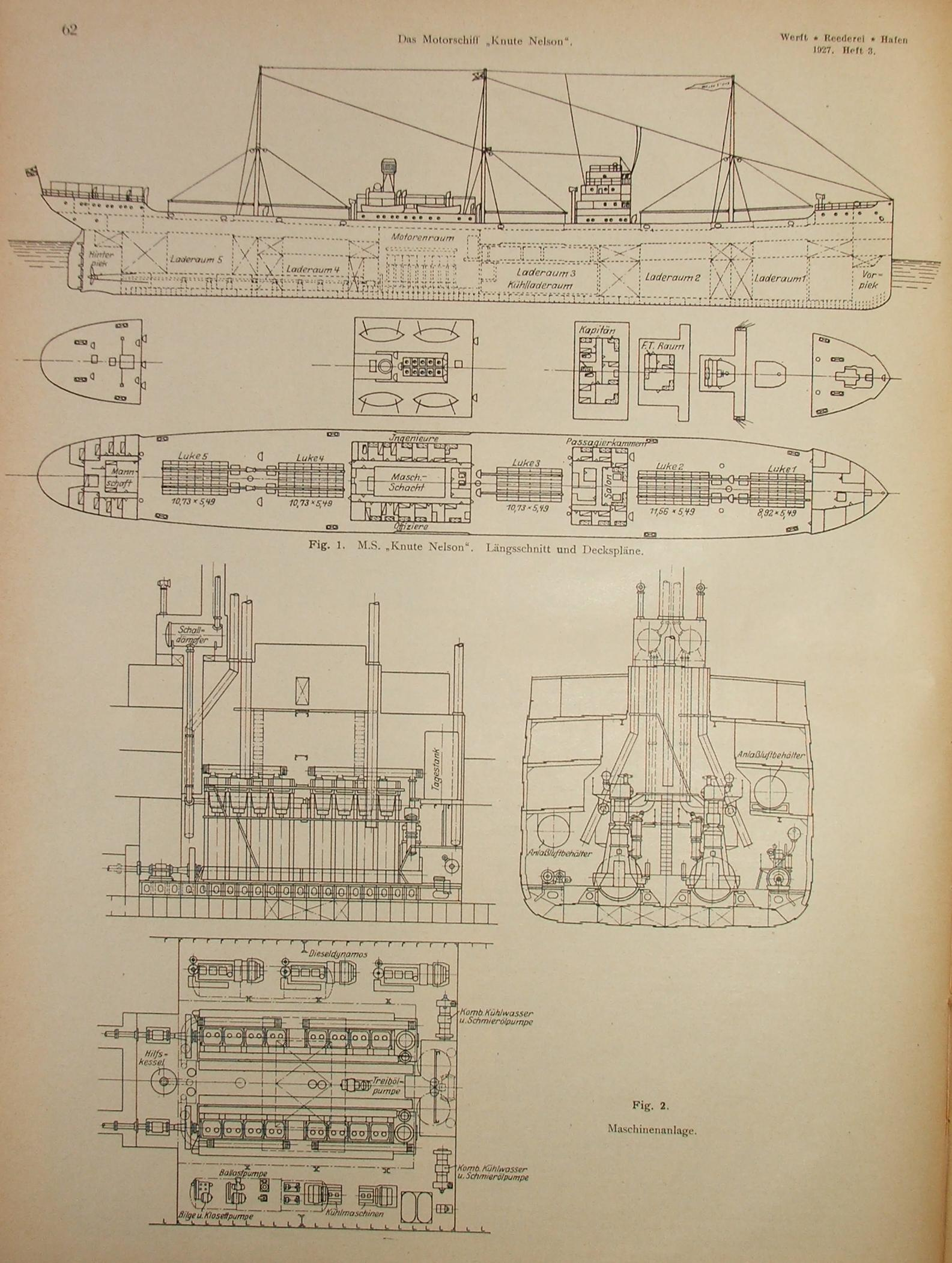 Deckplans Knute Nelson